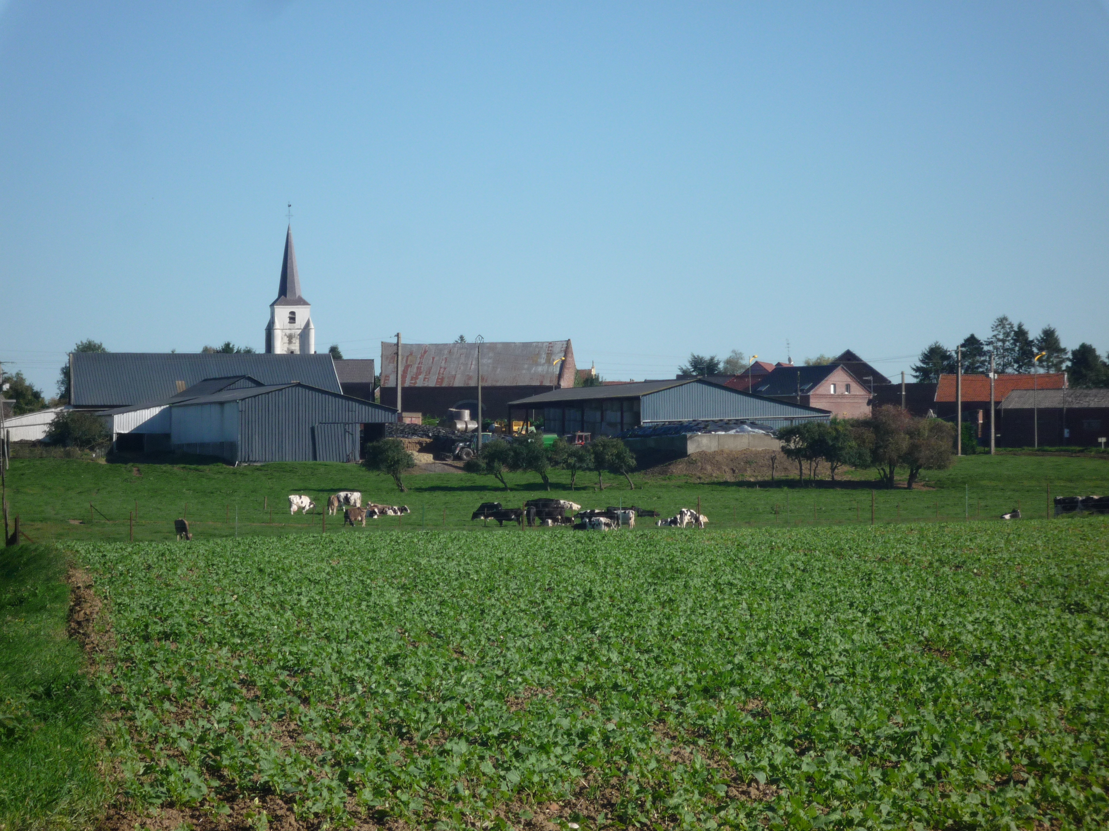 Audencourt, Caudry, Nord-Pas-de-Calais, France.